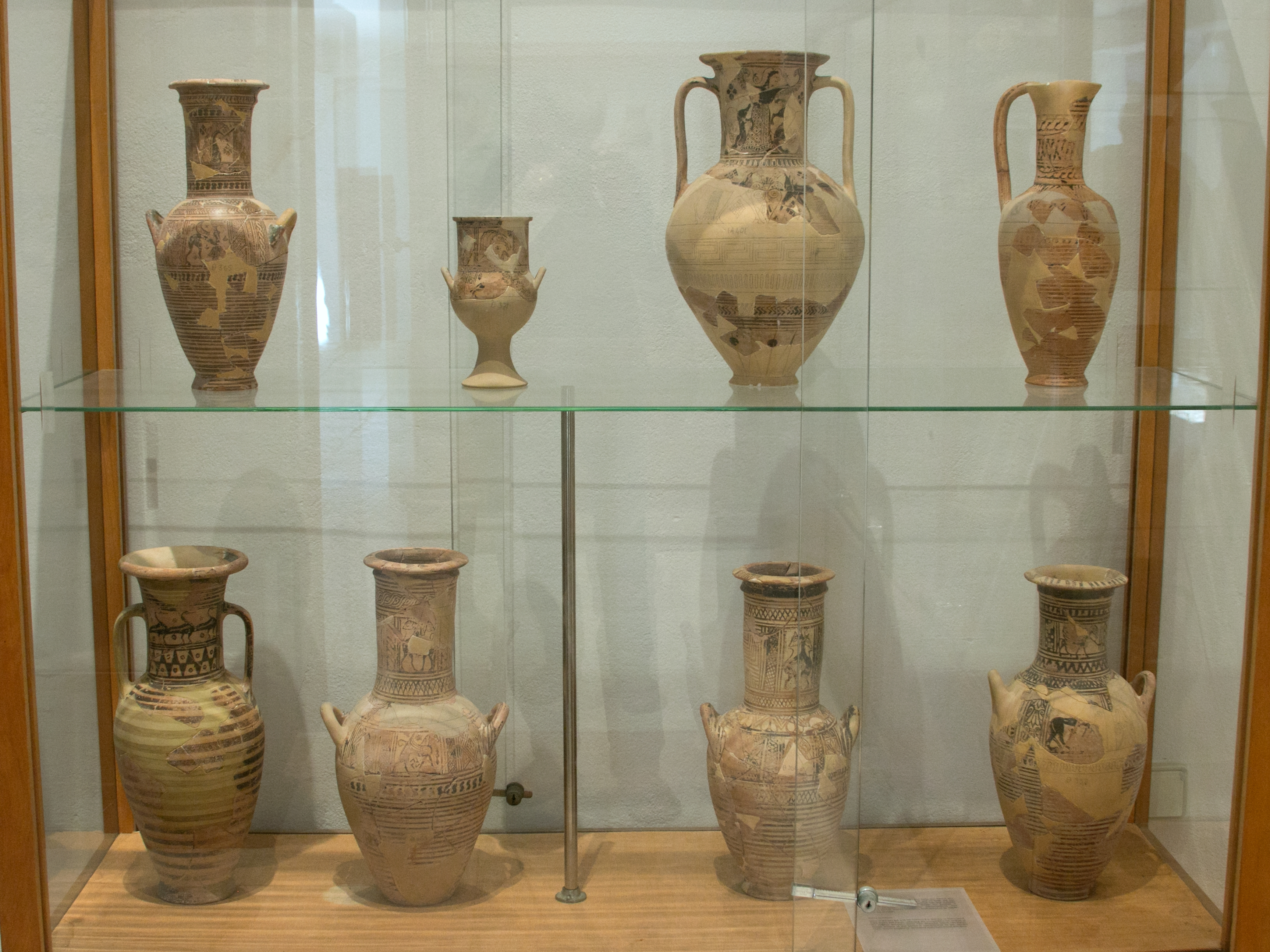 Ancient Greek Geometric (and orientalizing) potterry from Naxos and Paros, late 8th and 7th centuries BC, findings from Delos. Archaeological Museum of Mykonos.